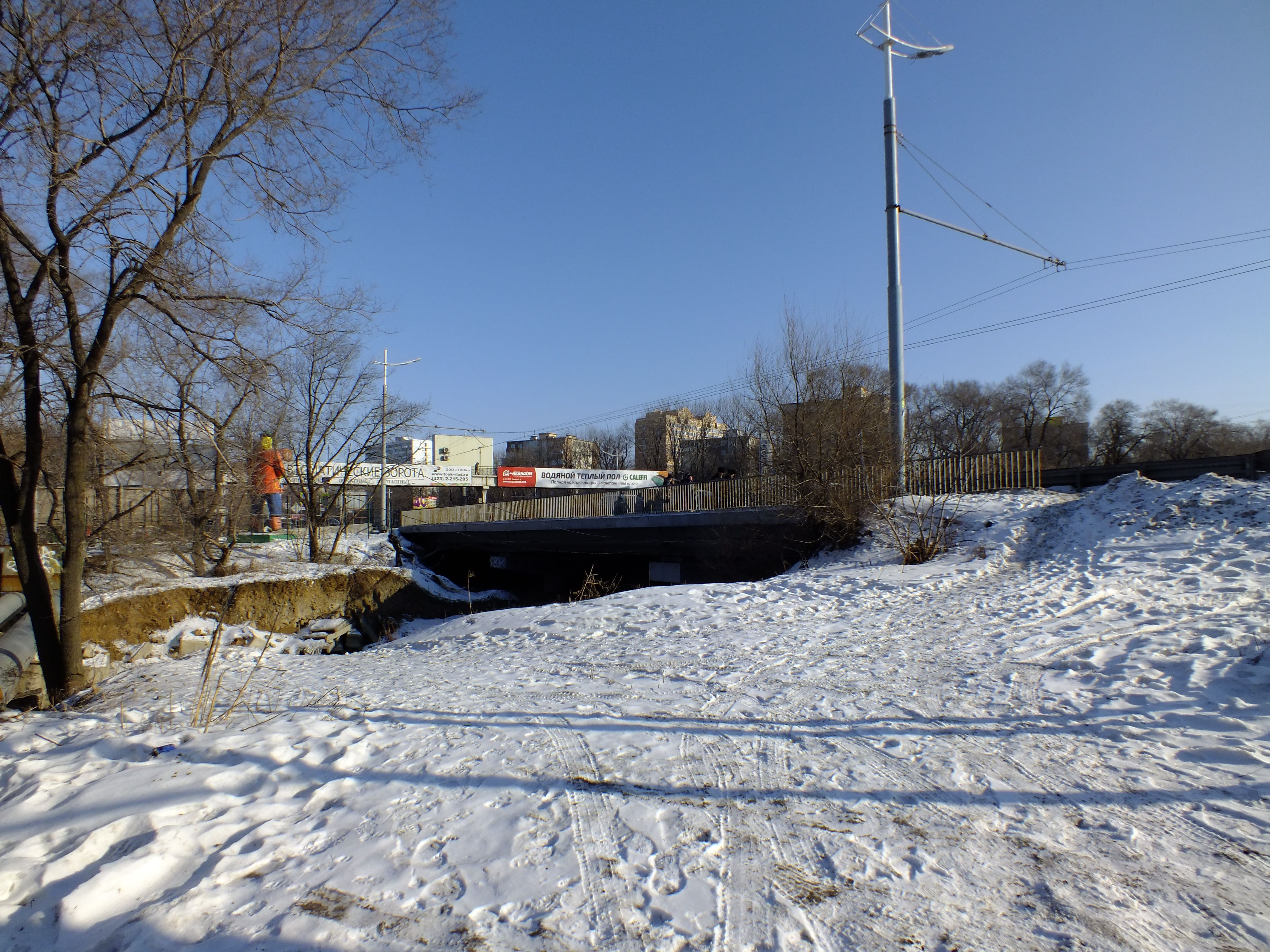 Rivers of Primorsky Krai